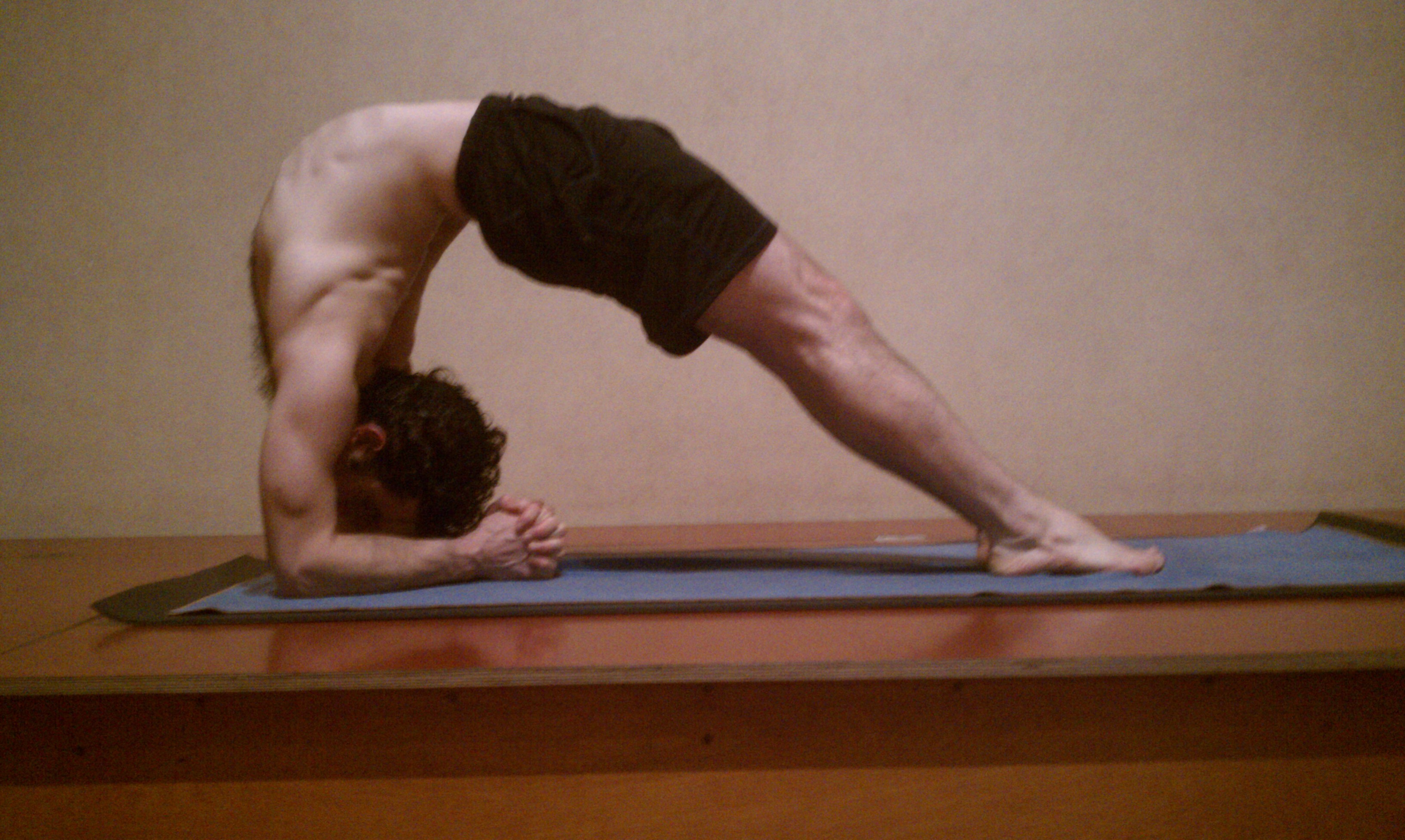 Title: Dwi Pada Viparita Dandasana Summary: Demonstration of a Yoga Posture Author: Self Subject: Self Source: Author's camera